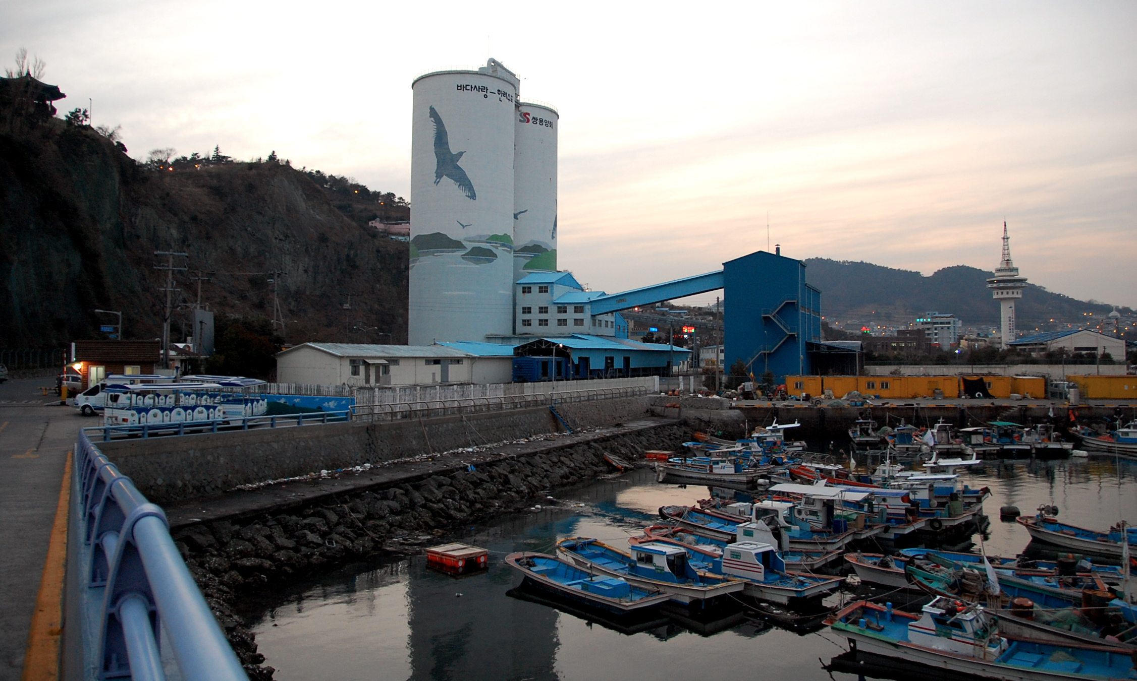 Harbor at Yeosu, Jeollanam-do, South Korea